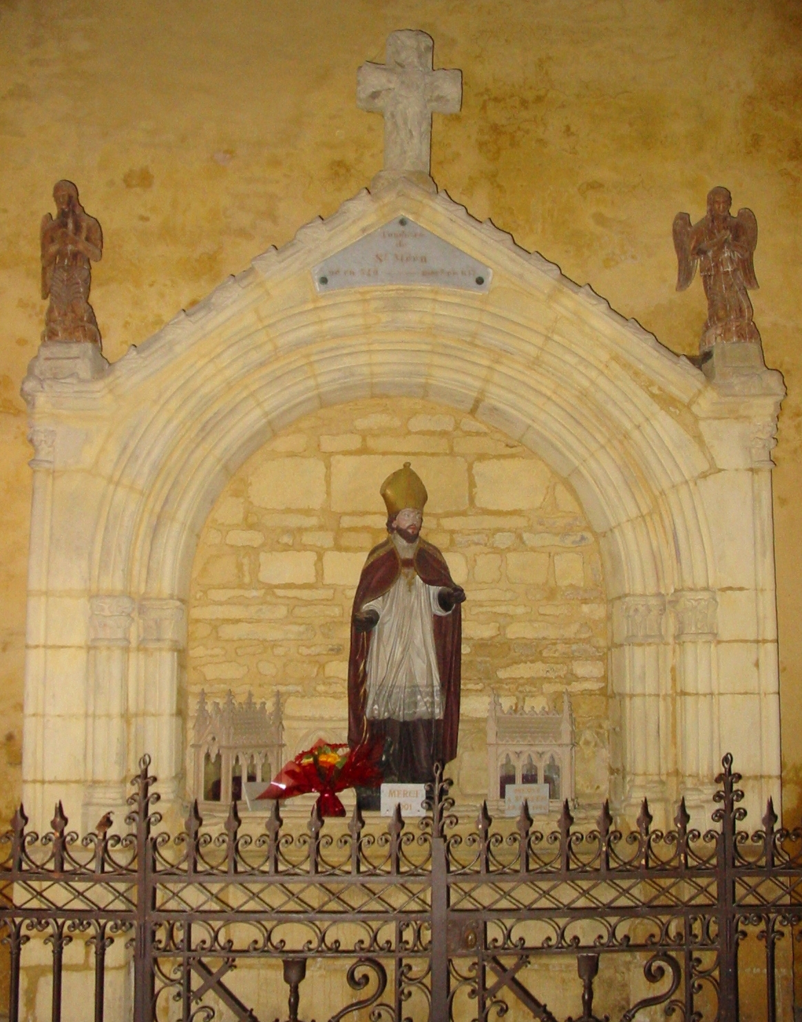 Tomb of Saint Méen (Mewan) in Saint-Méen-le-Grand, Brittany